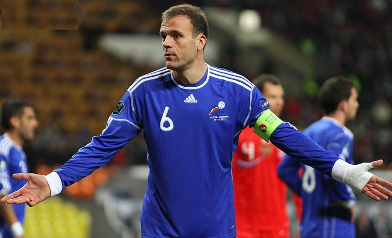 Ildefons Lima with the Andorra national football team.